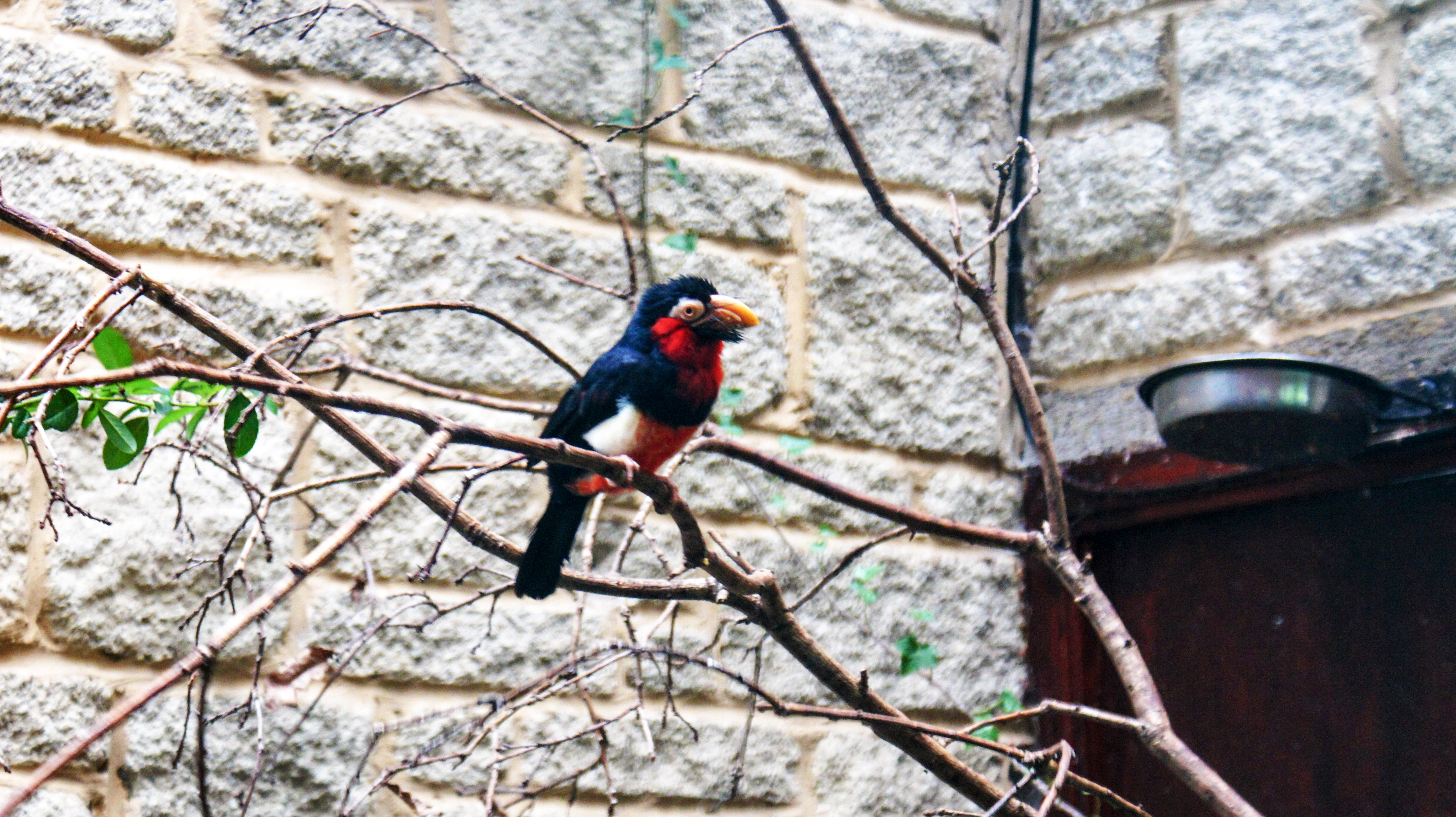 Bearded barbet on twigs in captivity